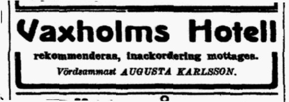 Advetisment for Vaxholms Hotell, Sweden, från the newspaper Rösträtt för kvinnor, May 15, 1914